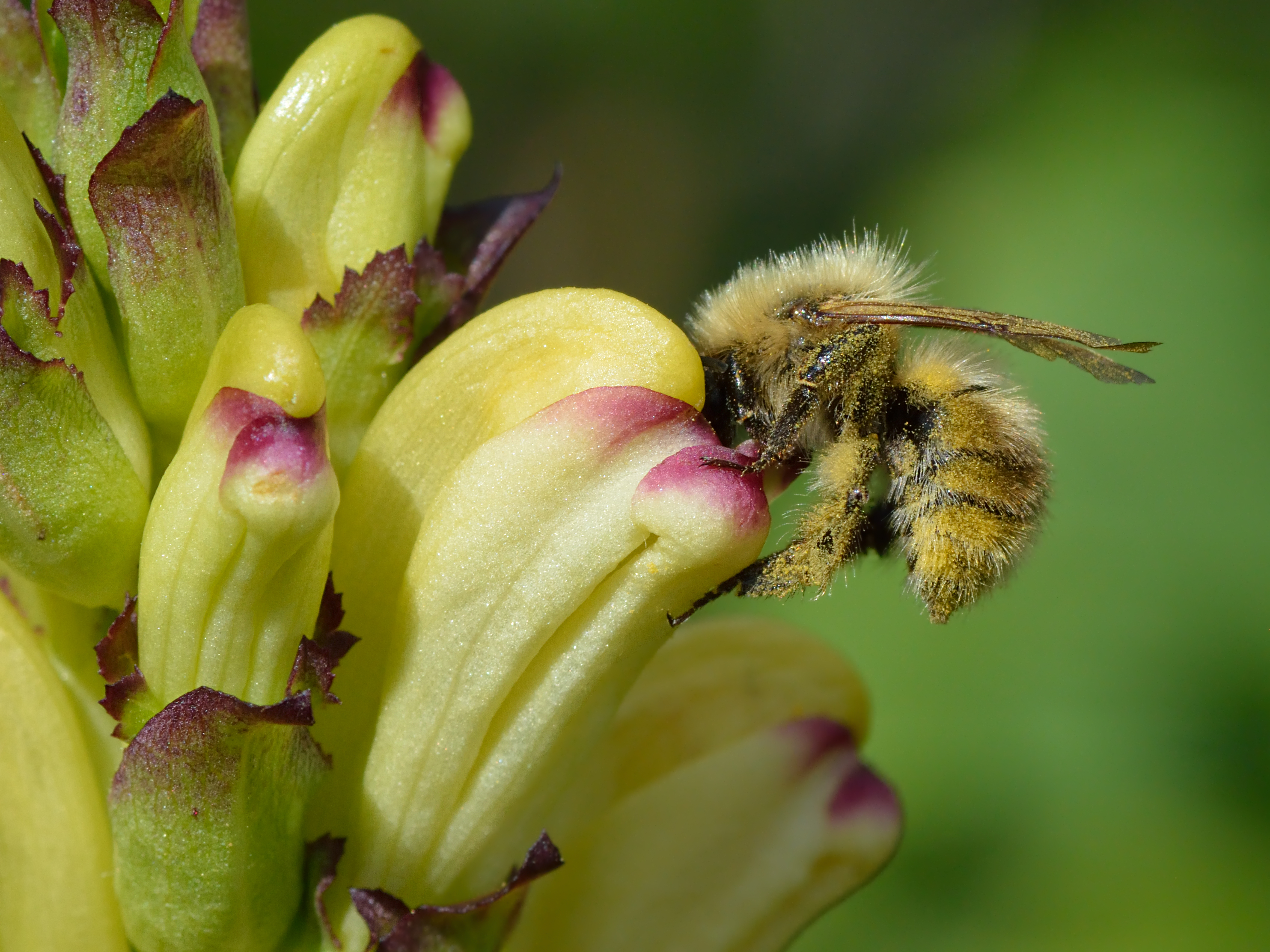 Schrenck’s bumblebee (Bombus schrencki) is opening the moor-king lousewort (Pedicularis sceptrum-carolinum) flower (only strong insects can do it). Niitvälja Bog, Northwestern Estonia. Moor-king is along with Schrenck’s bumblebee rare and protected species in Estonia.